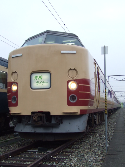 〝Ome Liner〟of Series 183,East Japan Railway,Japan